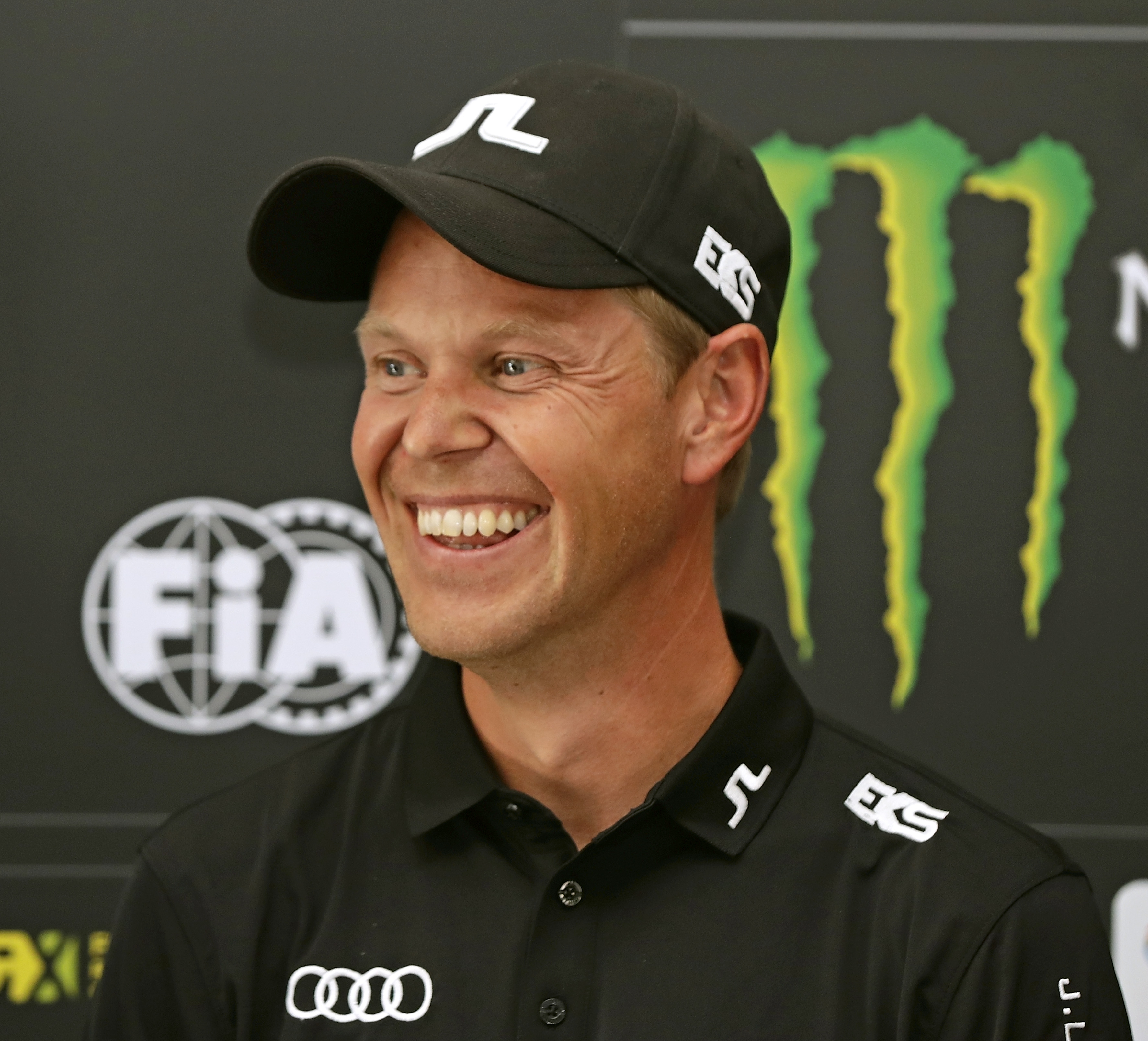 2017 FIA World Rallycross Championship // Round 07, Höljes // Credit: EKS/Bodo Kräling